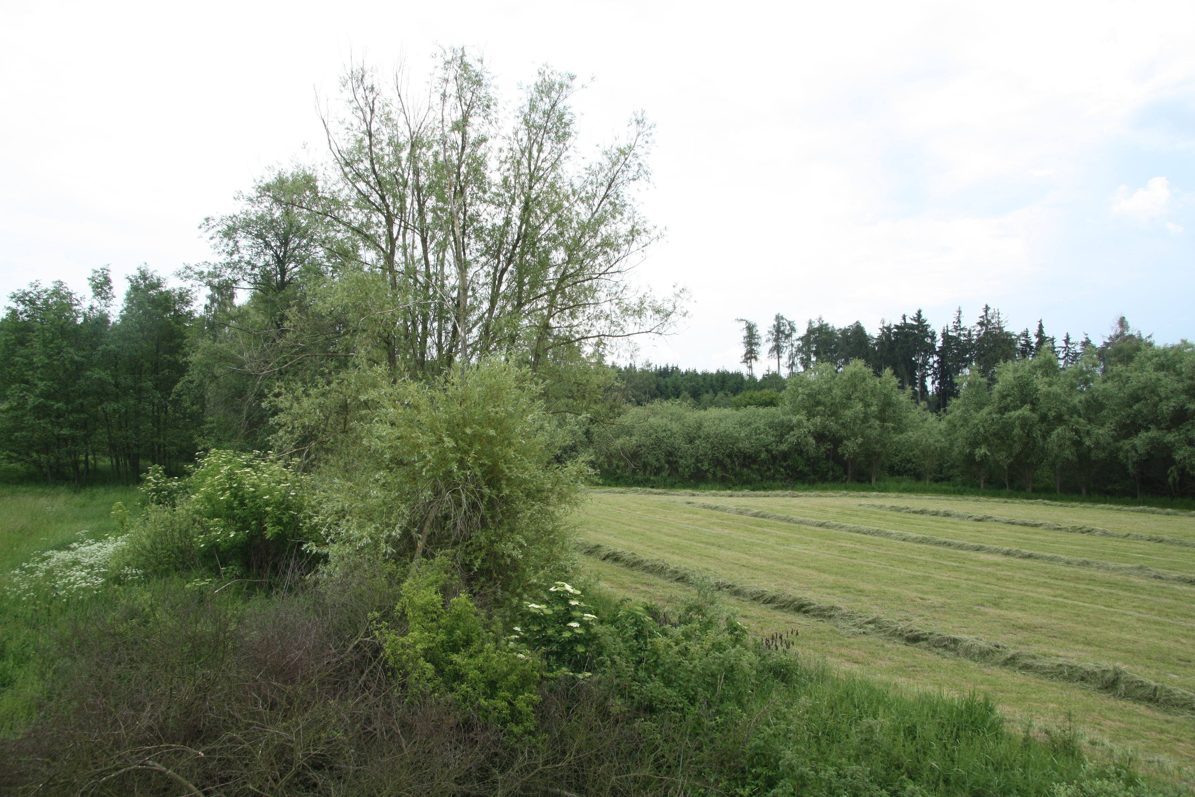 Right part of natural monument Maršovec a Čepička near Kojatín, Třebíč District.